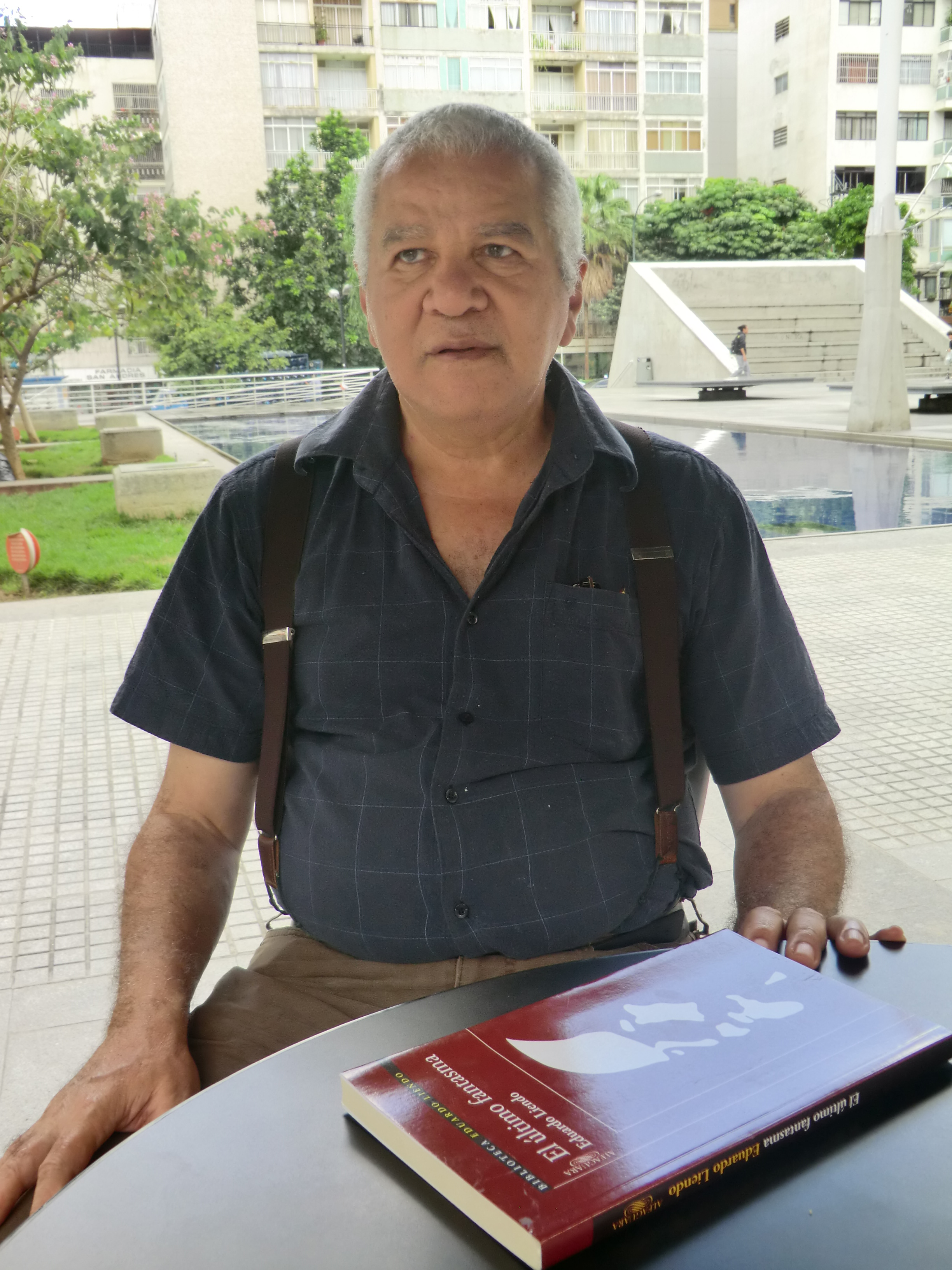 Venezuelan writer Eduardo Liendo (Plaza Los Palos Grandes, Caracas).